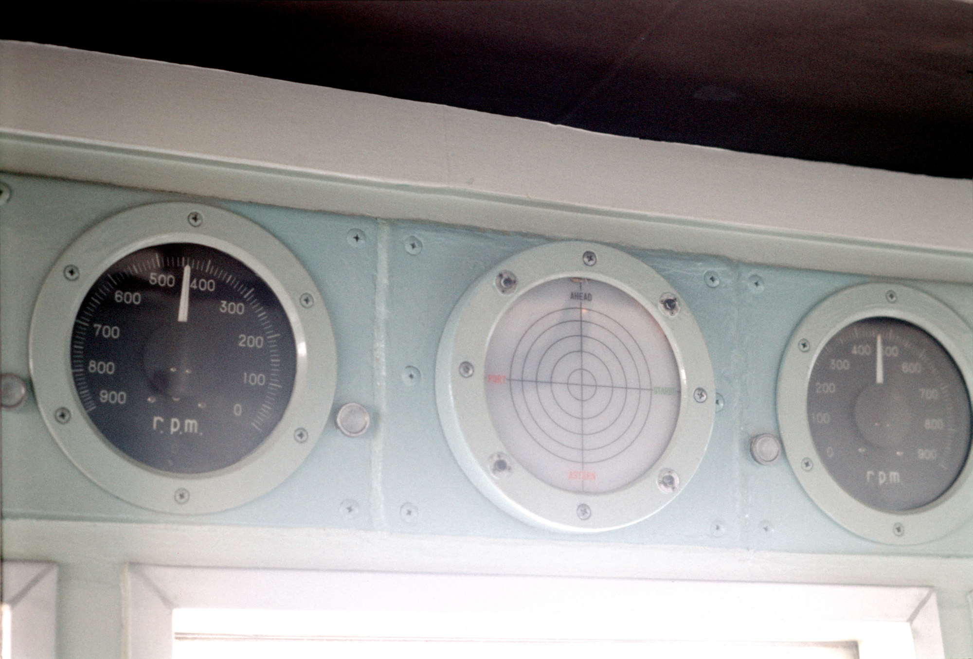 MS SANUKI MARU1 Voith Schneider Propeller Thrust direction indicator in Wheelhouse